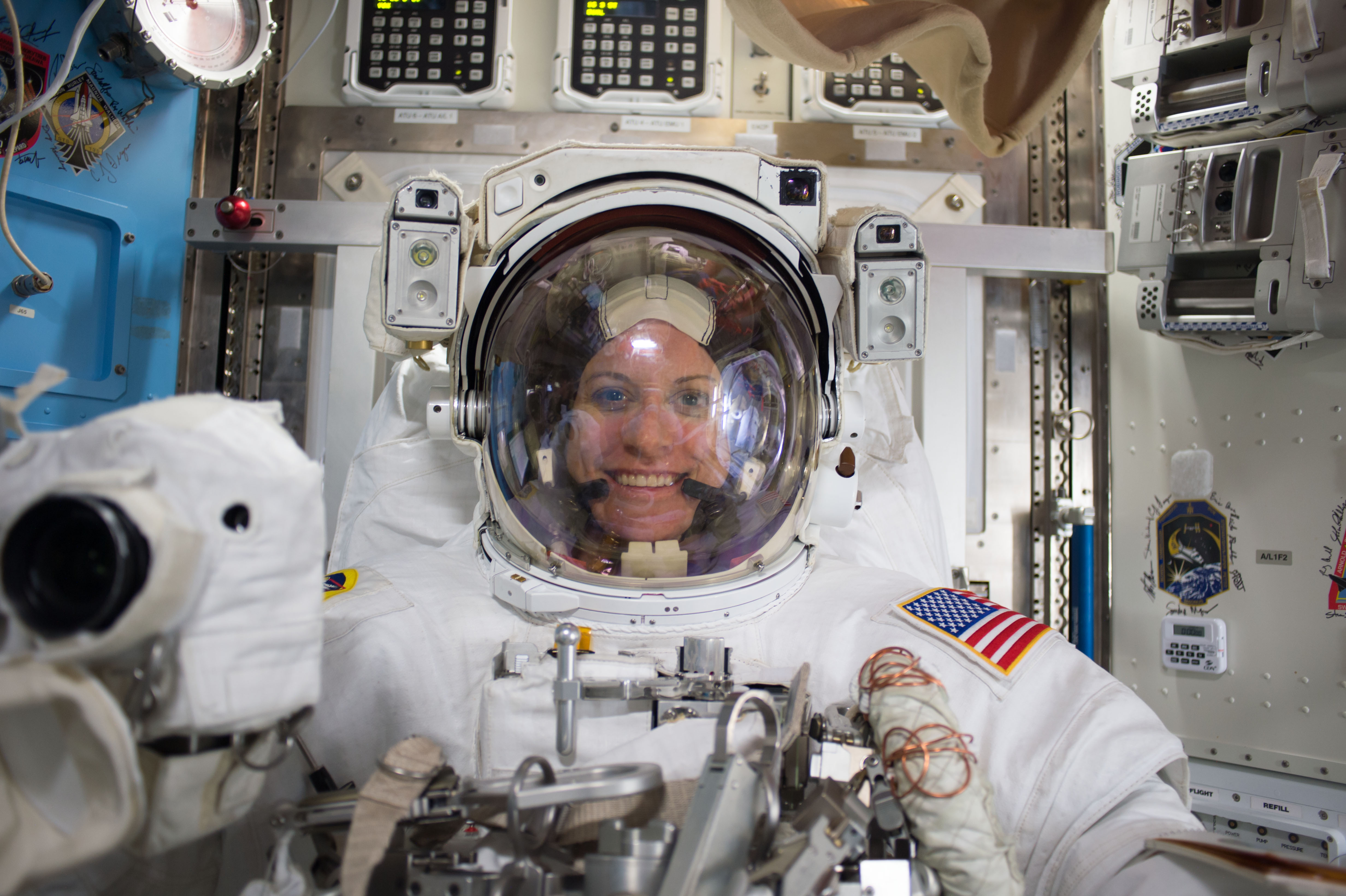 Kate Rubins prior EVA-1 in the Quest airlock NASA text: Expedition 48 Commander Jeff Williams and Flight Engineer Kate Rubins (pictured) of NASA conducted a five-hour and 58-minute spacewalk on Aug. 19, 2016. The pair installed the first of two international docking adapters (IDAs) that will be used for the future arrivals of Boeing and SpaceX commercial crew spacecraft in development under NASA’s Commercial Crew Program. Commercial crew flights from Florida’s Space Coast to the International Space Station will restore America’s human launch capability and increase the time U.S. crews can dedicate to scientific research, which is helping prepare astronauts for deep space missions, including the journey to Mars.